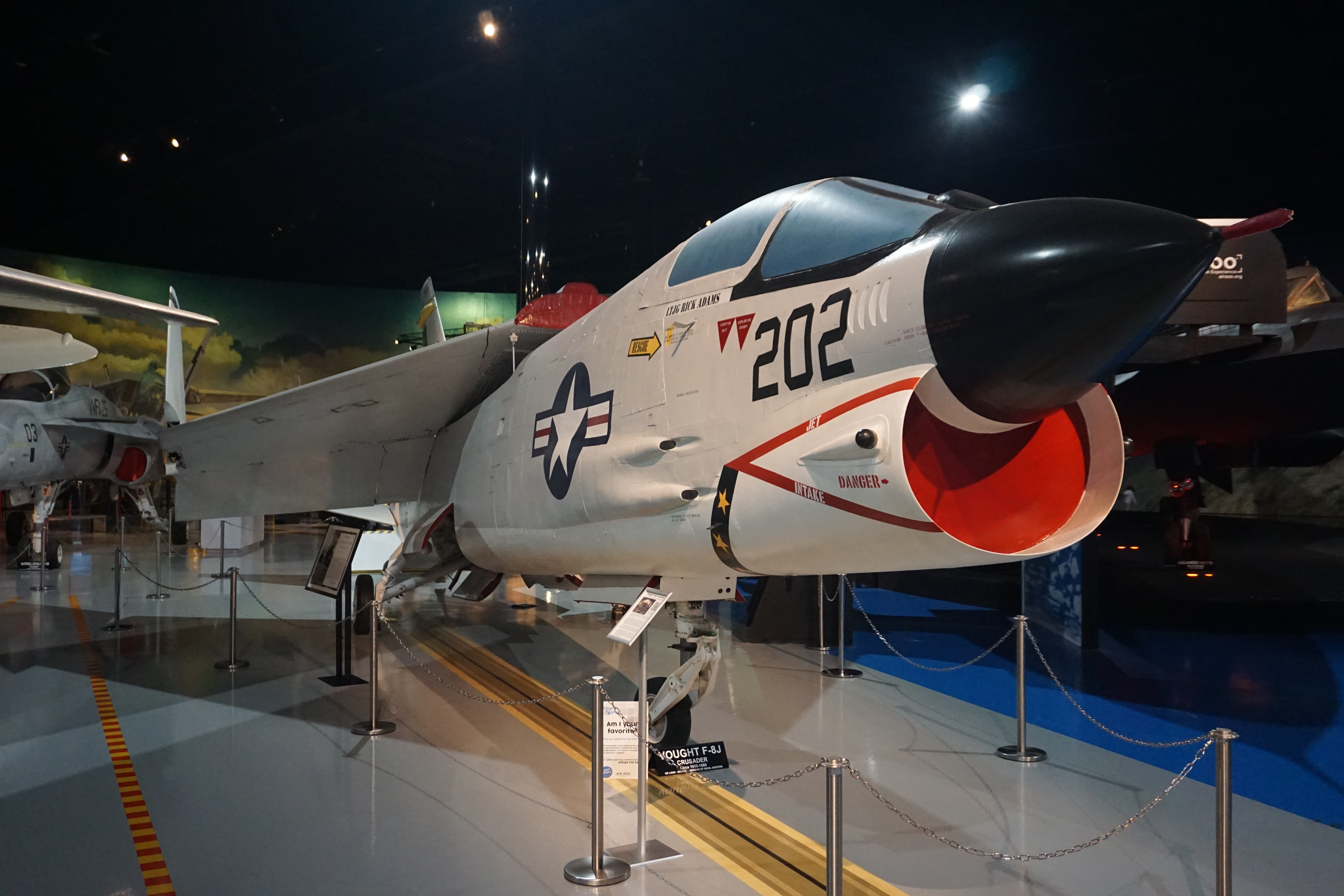 A Vought F-8J Crusader on display at the Air Zoo at Kalamazoo/Battle Creek International Airport in Portage, Michigan (United States).